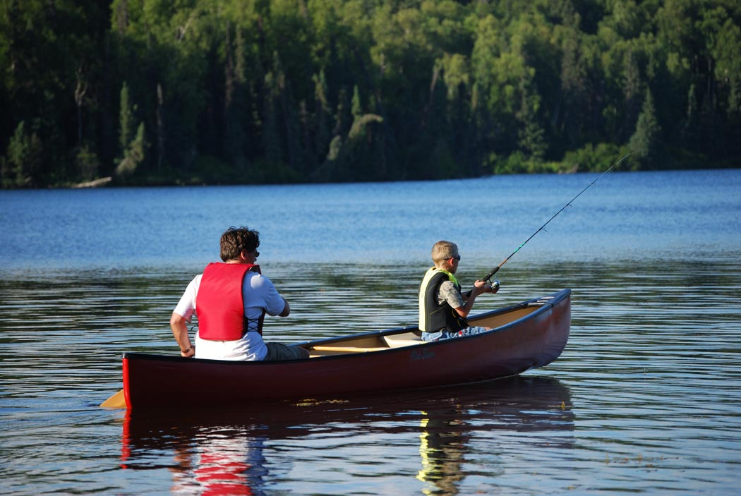 Man and child fish from canoe on South Rolly Lake in Alaska.